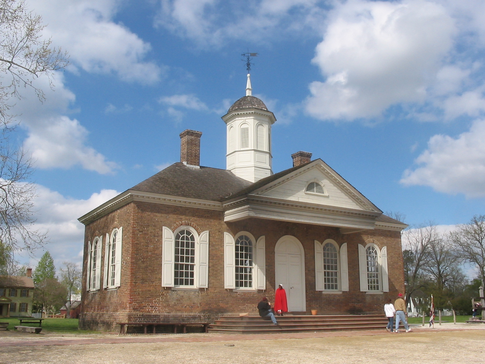 Williamsburg Historic District, Bounded by Francis, Waller, Nicholson, N. England, Lafayette, and Nassau Sts.